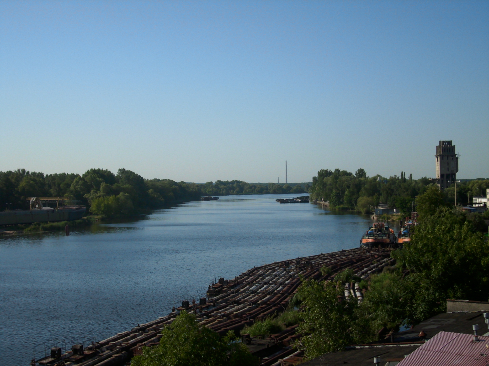 Oder River - the view from Kolumba Street, Szczecin, Poland.